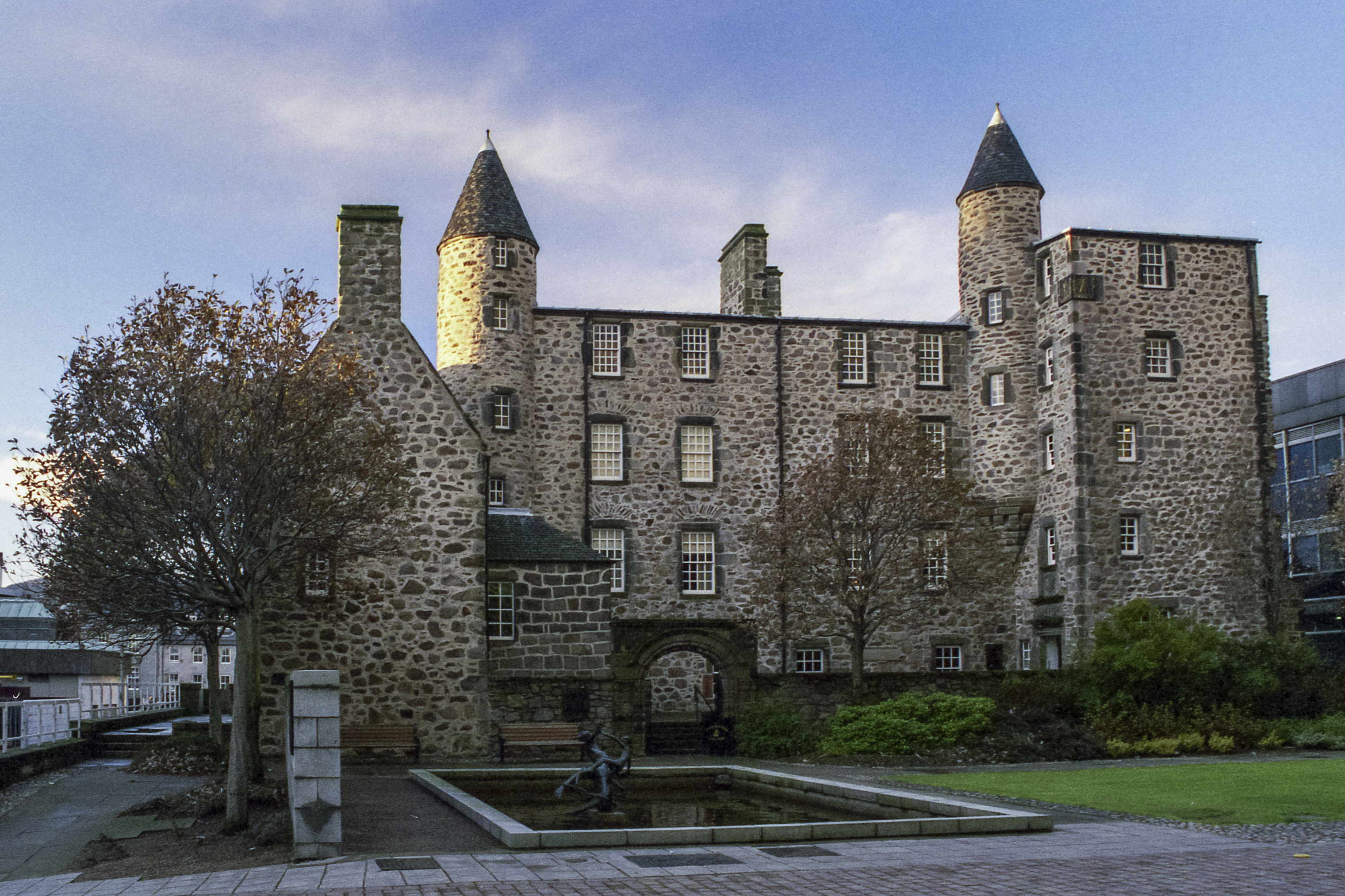 Aberdeen, Broad Street, Provost Skene's House And Archway Wikidata has entry Q17576473 with data related to this item.